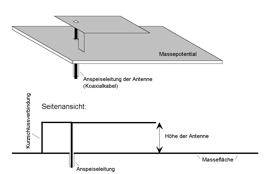 Sketch of a PIFA, a microstrip antenna used in cell phones.